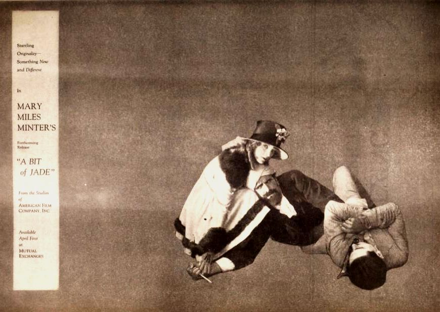 Advertisement for the American comedy film A Bit of Jade (1918) with Mary Miles Minter and Al Ferguson, on page 3 of the April 6, 1918 Exhibitors Herald.